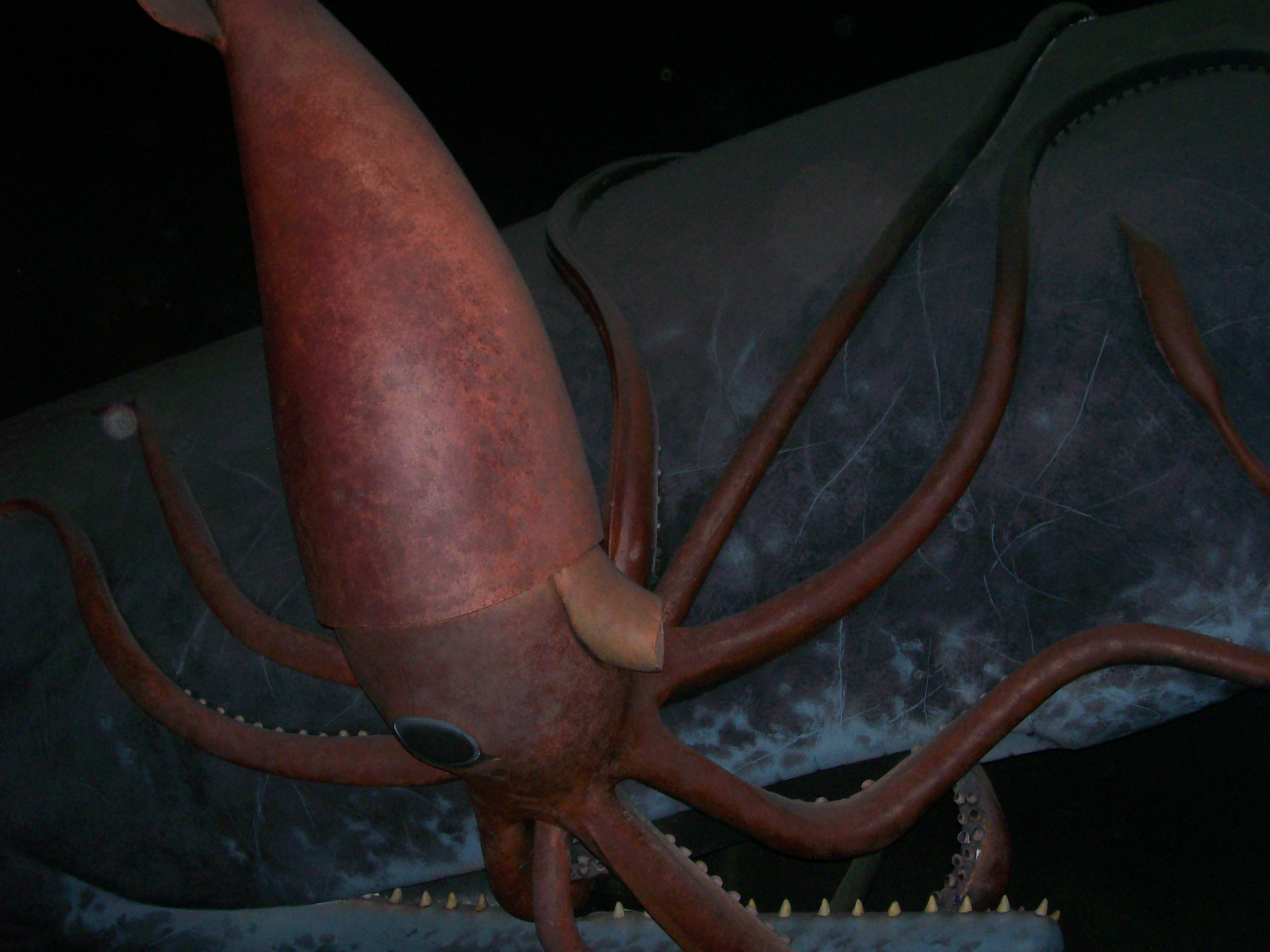 A picture of a Sperm Whale (Physeter macrocephalus) wrestling its prey, a Giant Squid (Architeuthis dux), at the American Museum of Natural History.